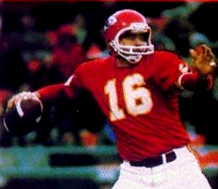 Kansas City Chiefs quarterback Len Dawson pictured attempting a pass.